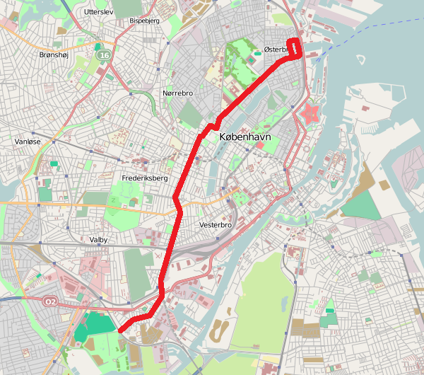 Map of Copenhagen bus line 3A between Valbyparken and Nordhavn Station as of october 2015.